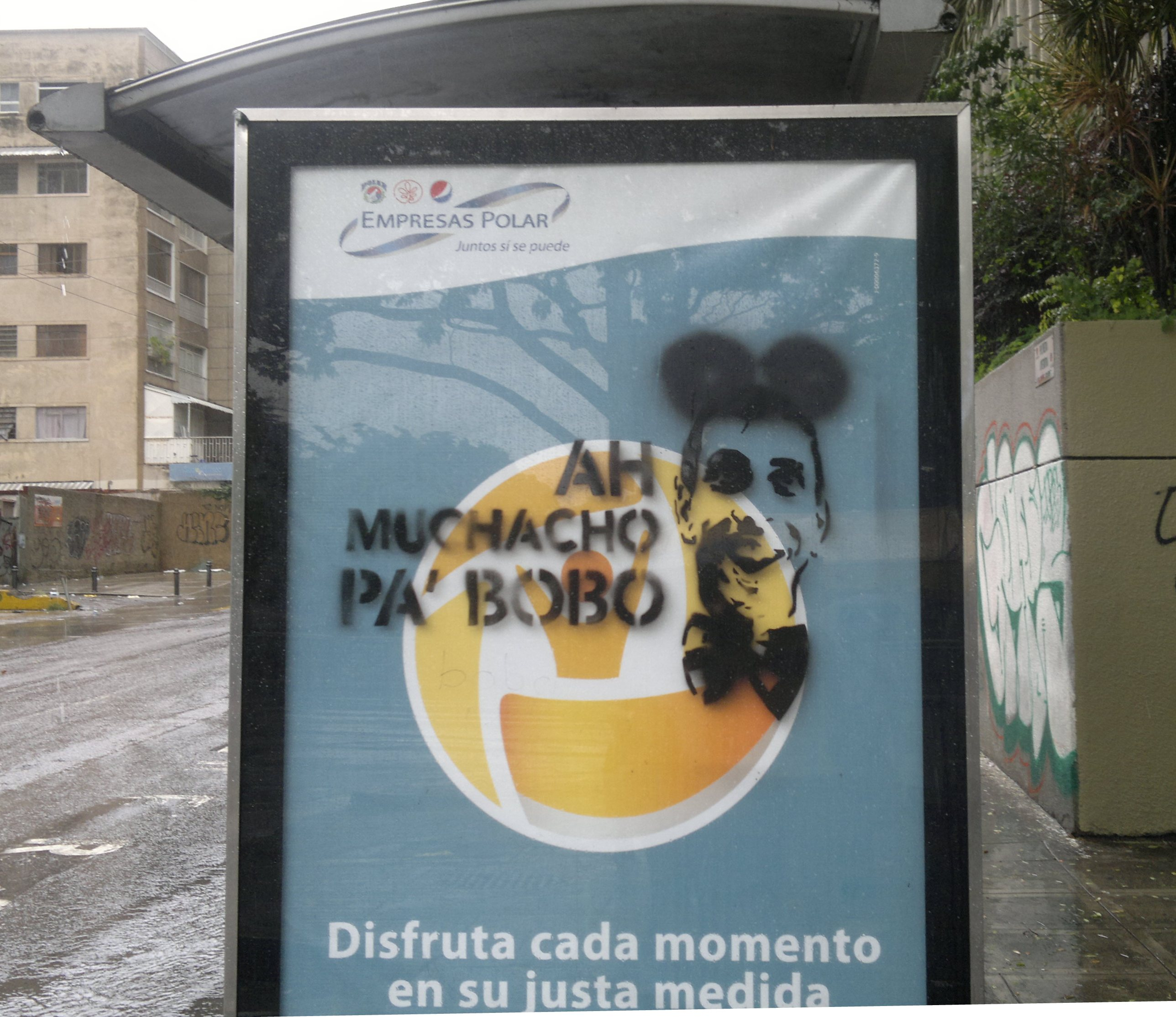 Political graffiti mocking Capriles Radonski, quoting Hugo Chavez speech.